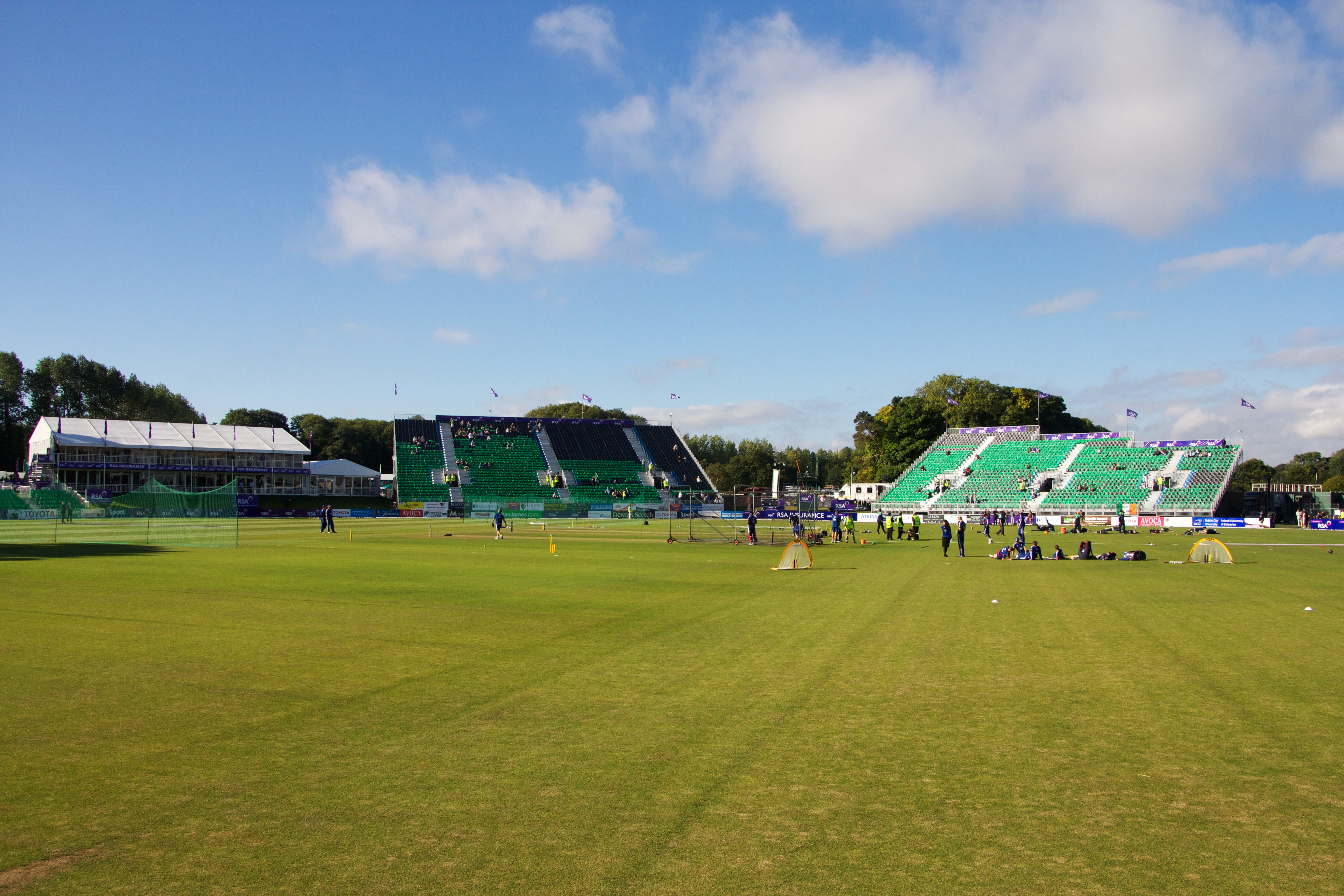 Malahide Cricket Ground hosting an ODI between Ireland and England in 2013